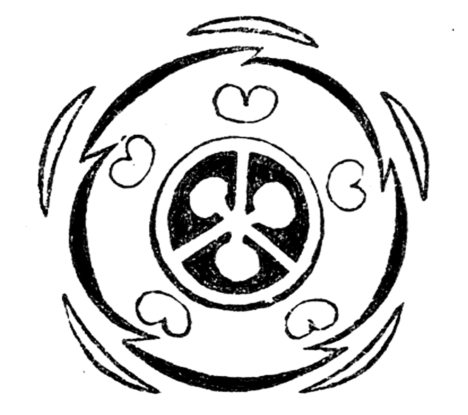 flower diagram of Sambucus nigra